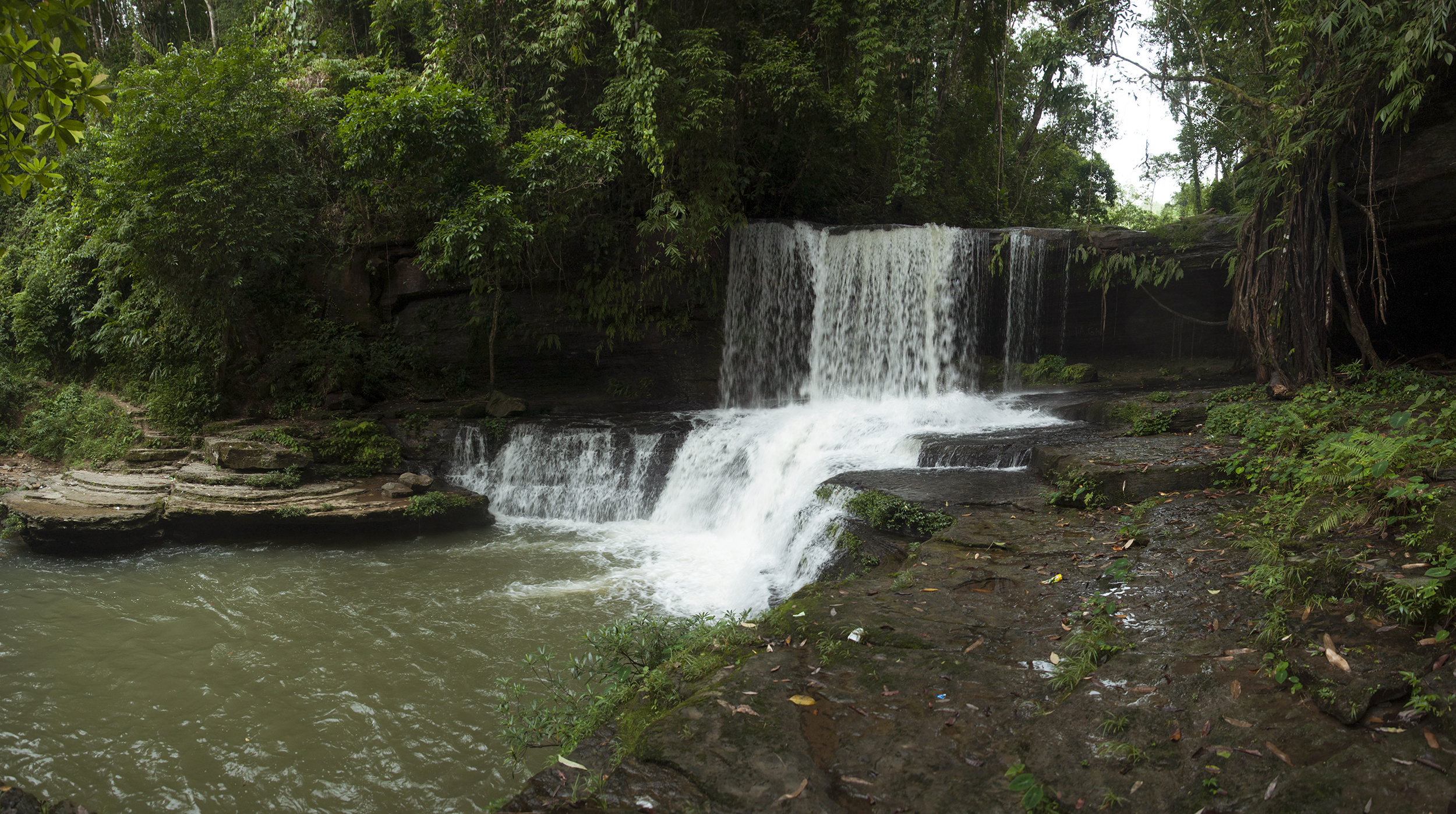 Tuirihiau falls, is located in Thenzawl, Mizoram. It is an upstream of the famous Vantawng Falls